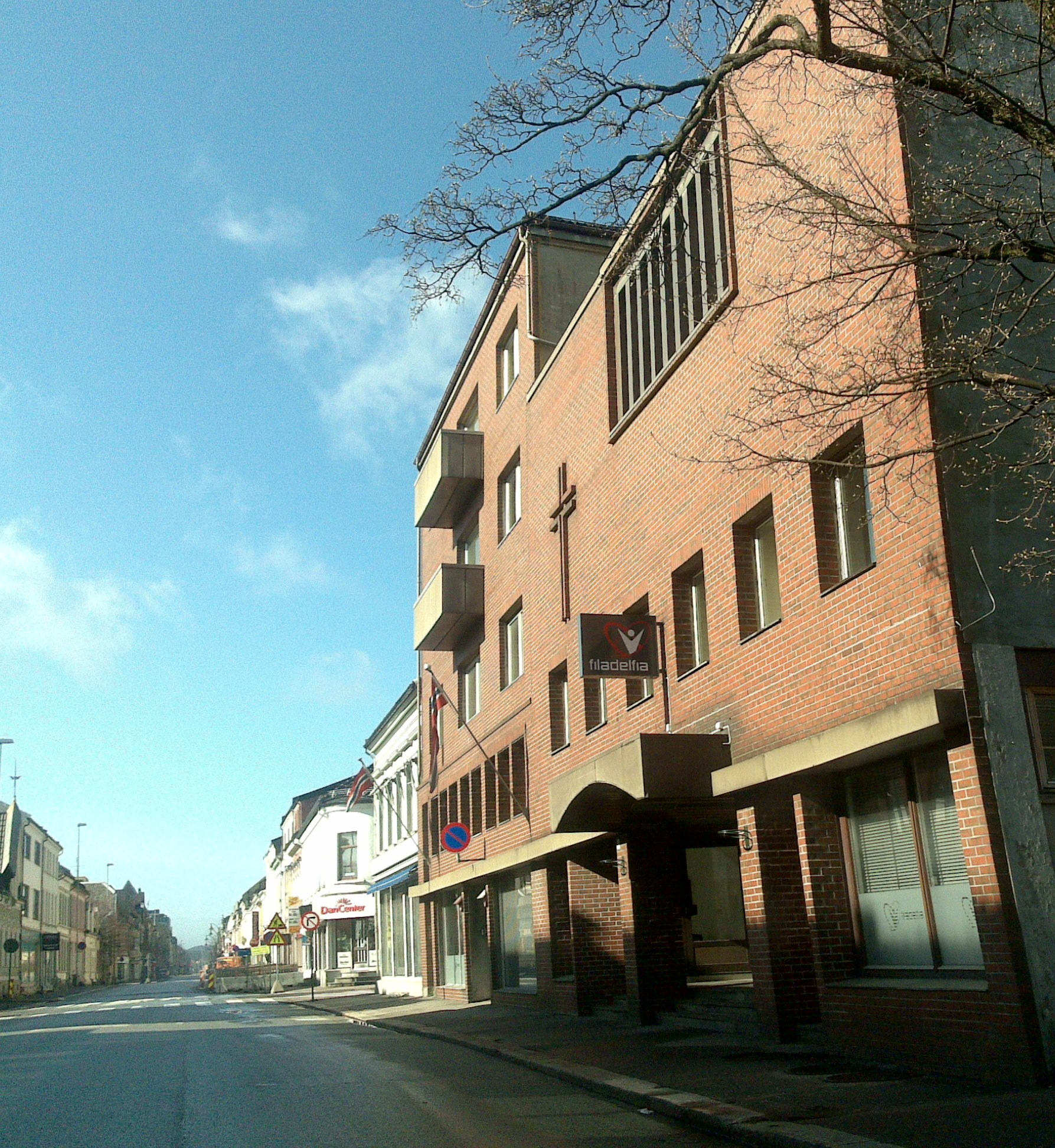 Filadelfia Pentecostal congregation, Dronningens gate 89, Kristiansand (Norway)